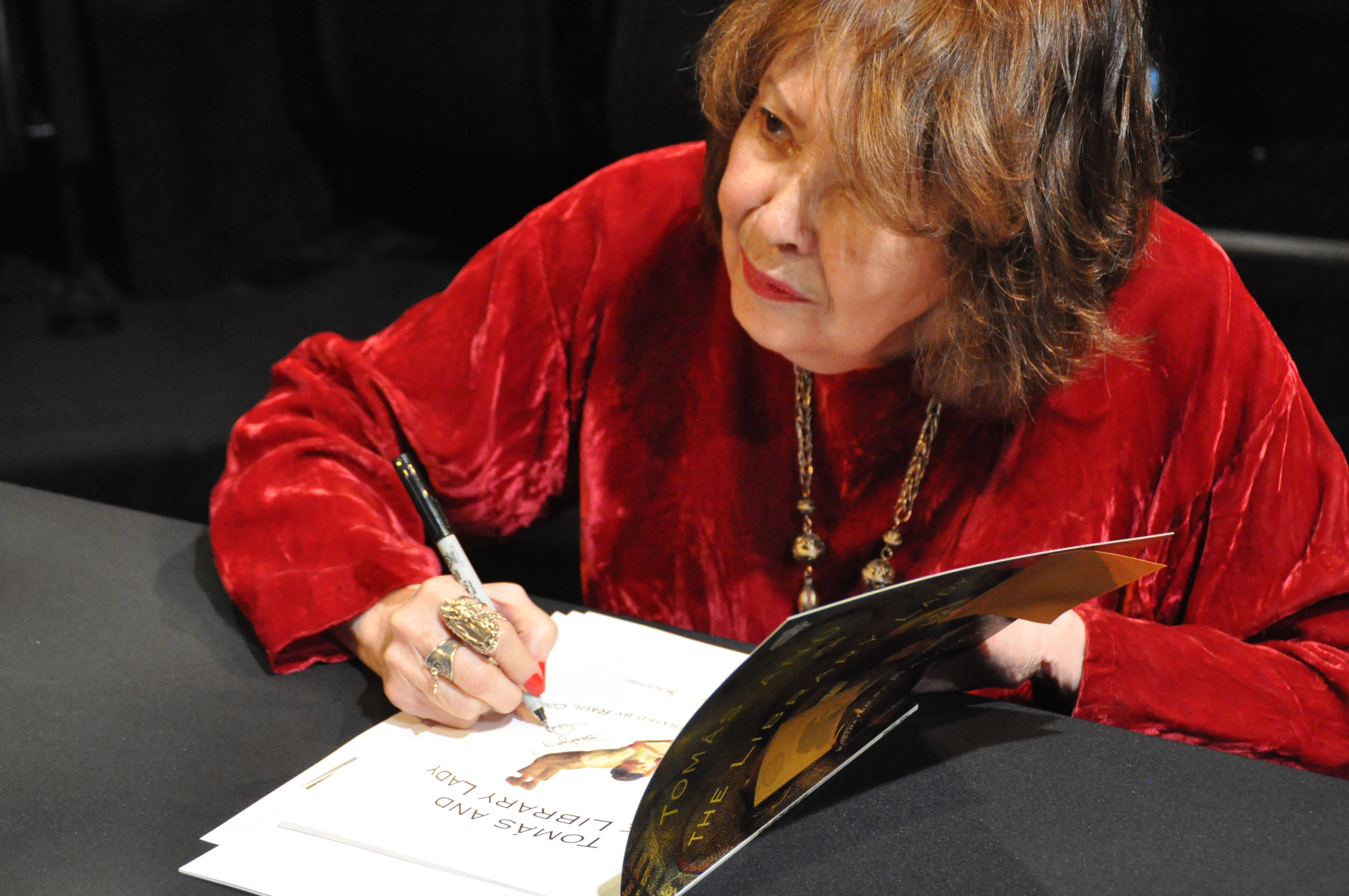 Texas Center for the Book and Children’s Author Pat Mora at a special performance of Tomás and the Library Lady on Saturday, Feb. 13 2015